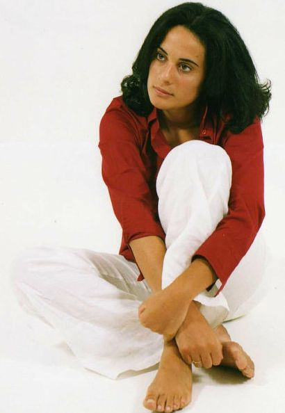 Annalisa Insardà